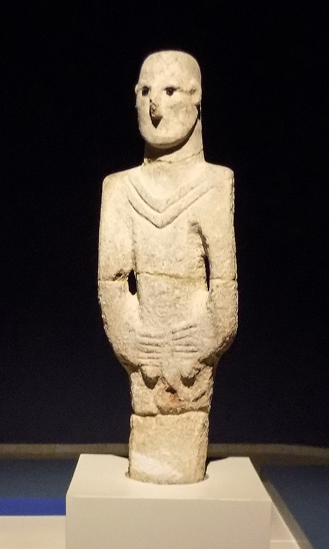 Urfa man, also known as the "Balikligöl Statue", Pre-Pottery Neolithic.